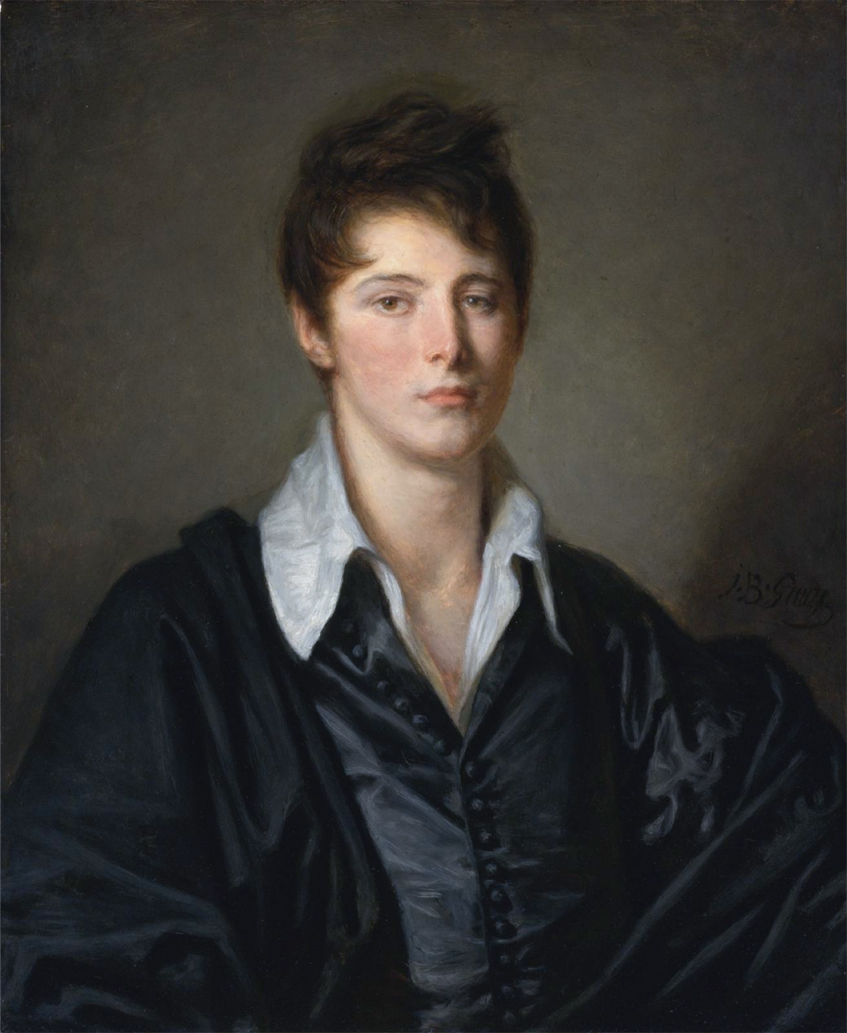 Florentius Josephus van Ertborn